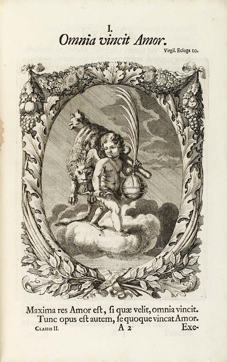 Emblem "Omnia vincit Amor" from the emblem-collection "Paridis Judicium ..." (Judgement of Paris), edited in Salzburg 1694.